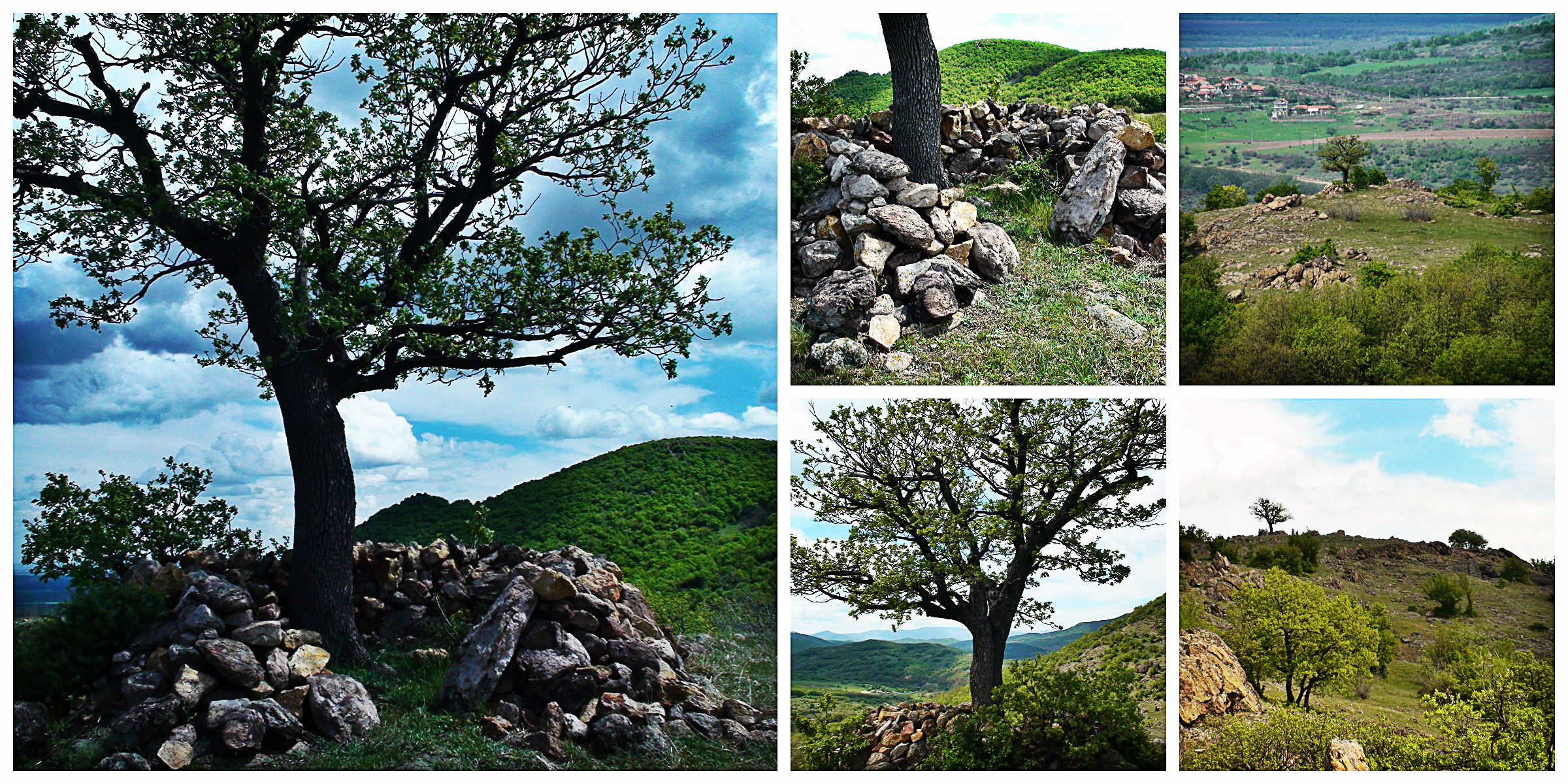 Gradushka_carkva_01